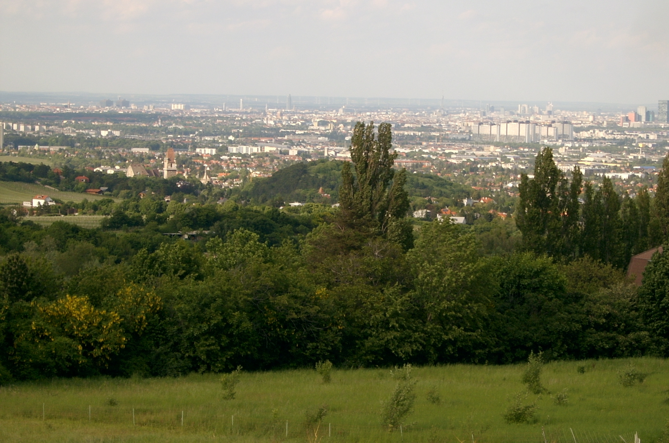 In the foreground Perchtoldsdorf, Vienna in the background